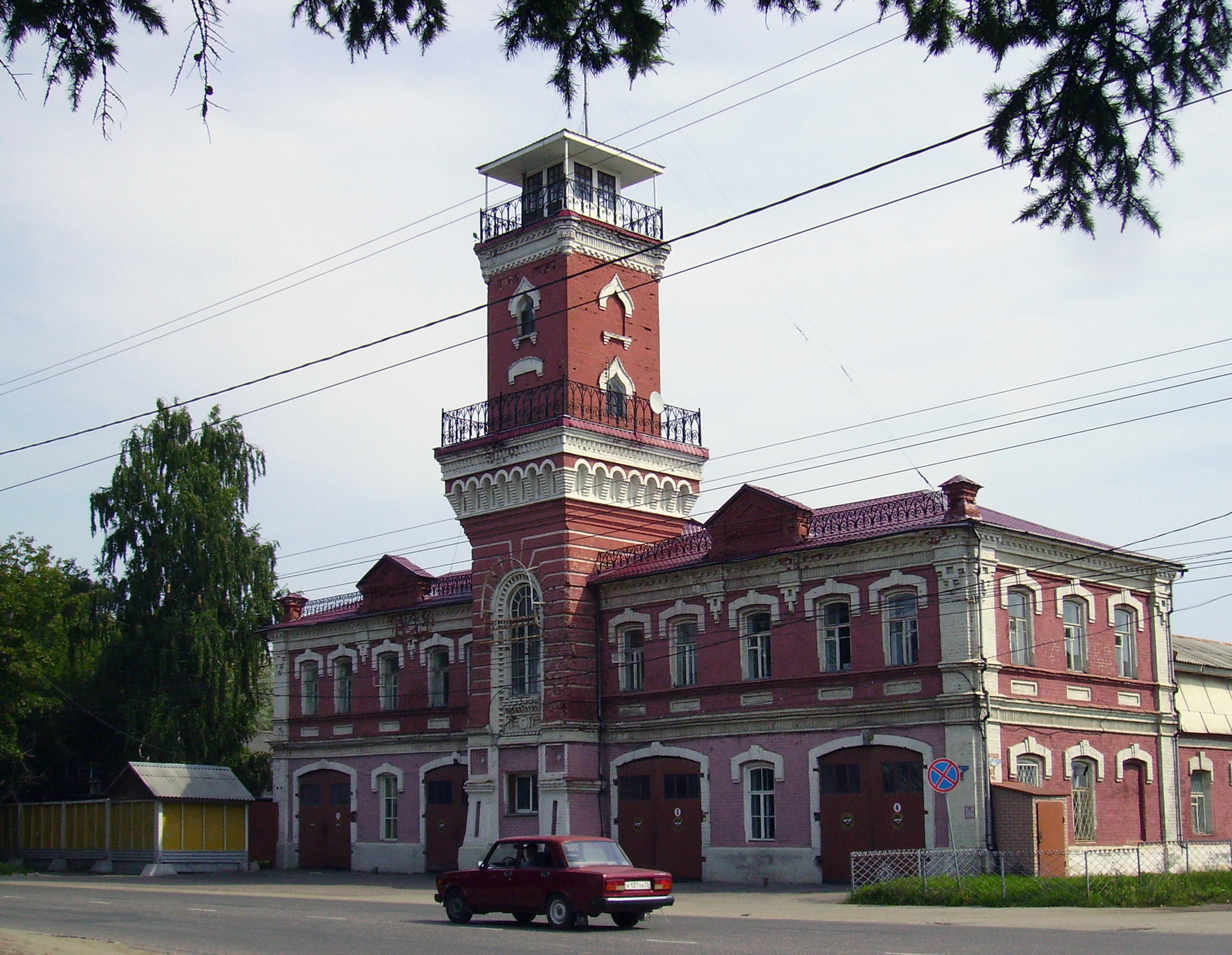 Kovrov. Heritage Town Fire Station